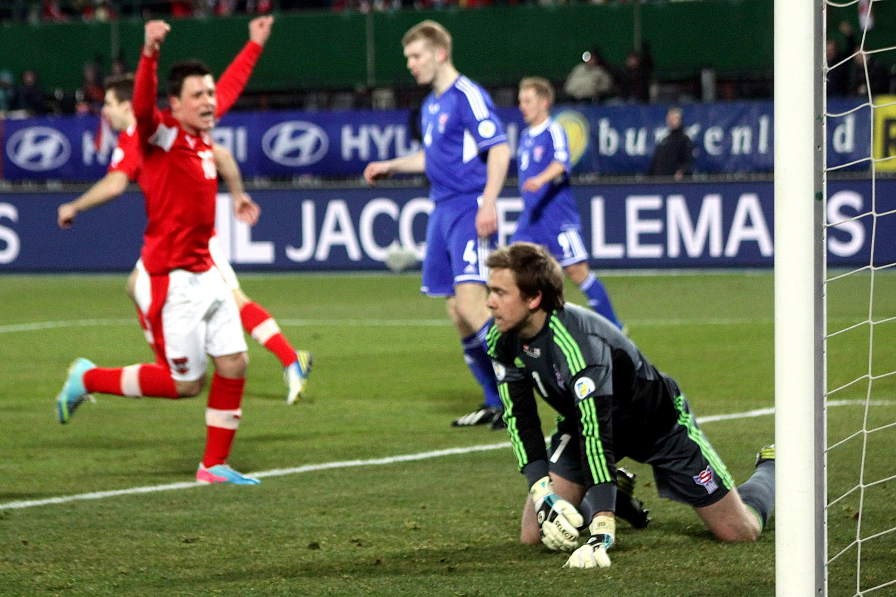 2014 FIFA World Cup qualification (UEFA), Group C: Austria national football team vs. Faroe Islands national football team 6:0 in the Ernst-Happel-Stadion in Vienna at 2013-03-22. – The photo shows keeper Gunnar Nielsen (Faroe Islands) after the 1:0. On the left side Zlatko Junuzović (Austria).